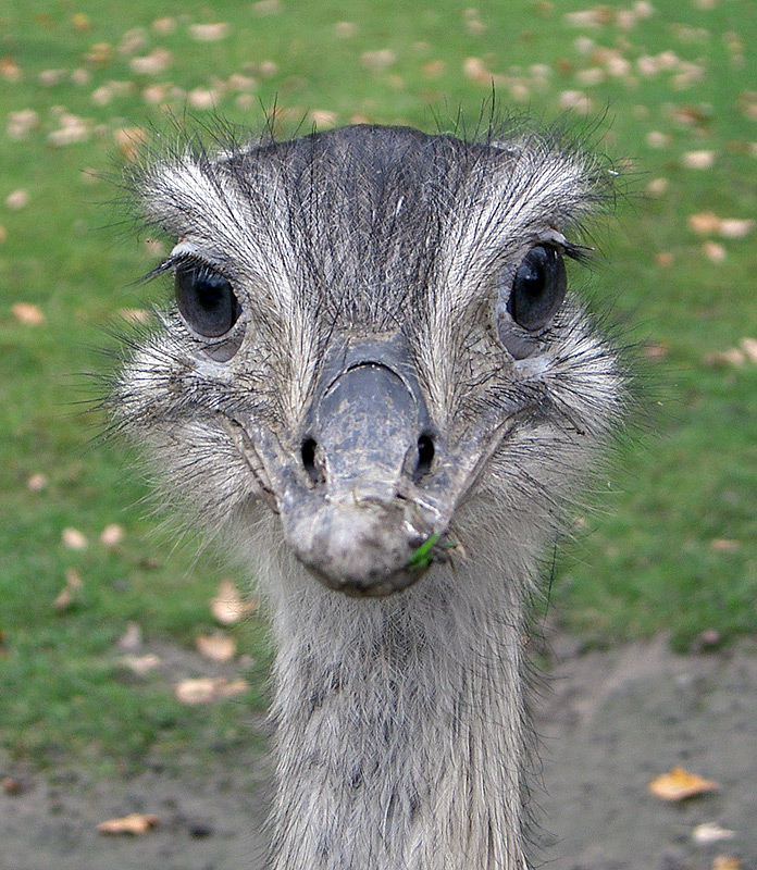 Greater Rhea, Zoo Dresden, 2004-10-30 ;Photographer : photographed by myself ;Licence : GFDL